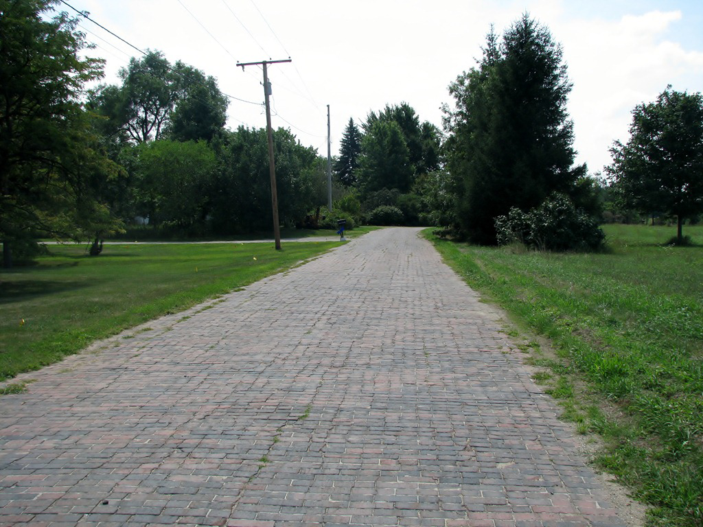 The Old Lincoln Highway on the southside of Ligonier, Indiana, also Old U.S. Route 33